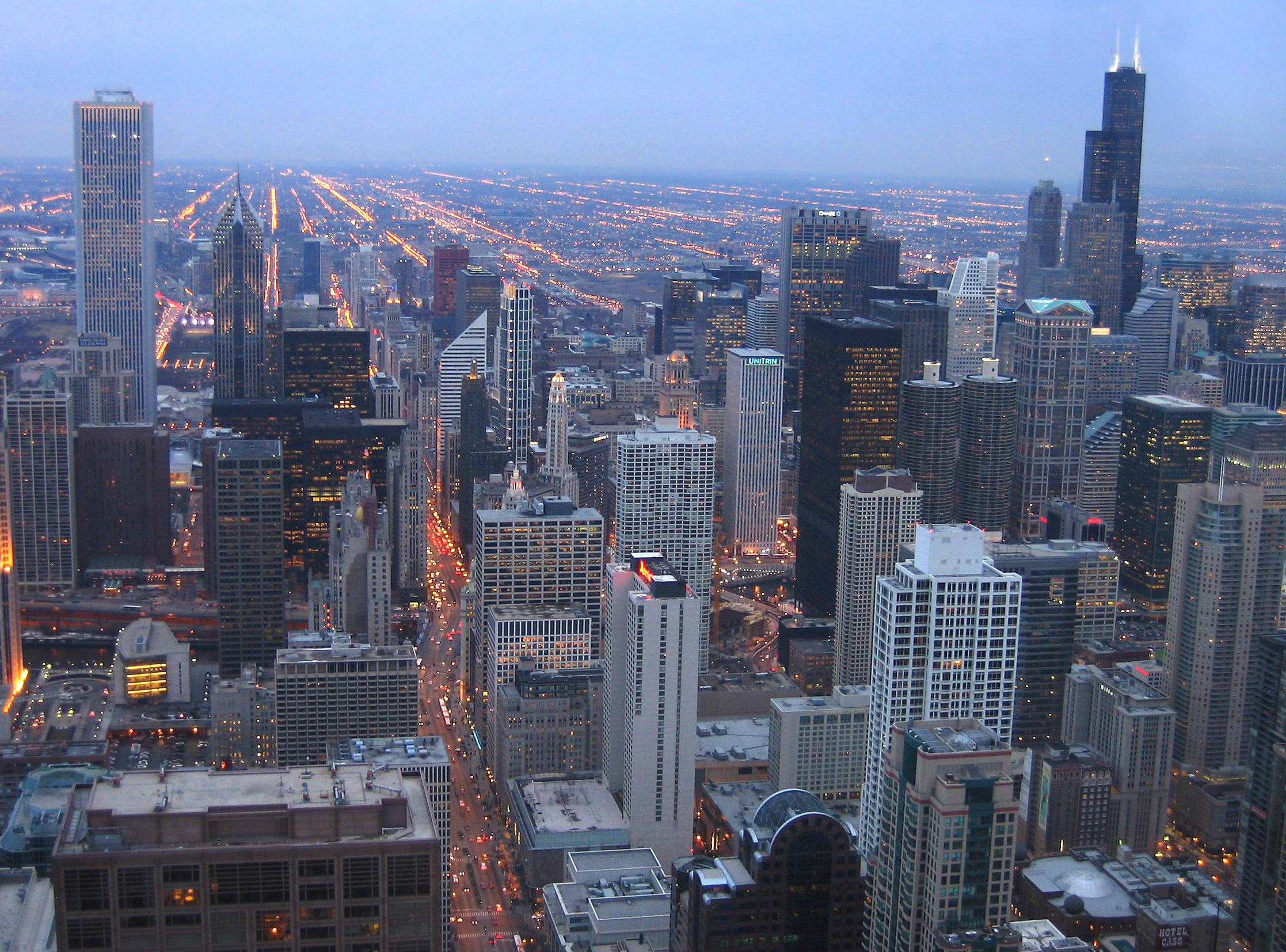 Downtown Chicago skyline (Aon Center - left; Sears Tower - right), viewed from the John Hancock Center observatory.